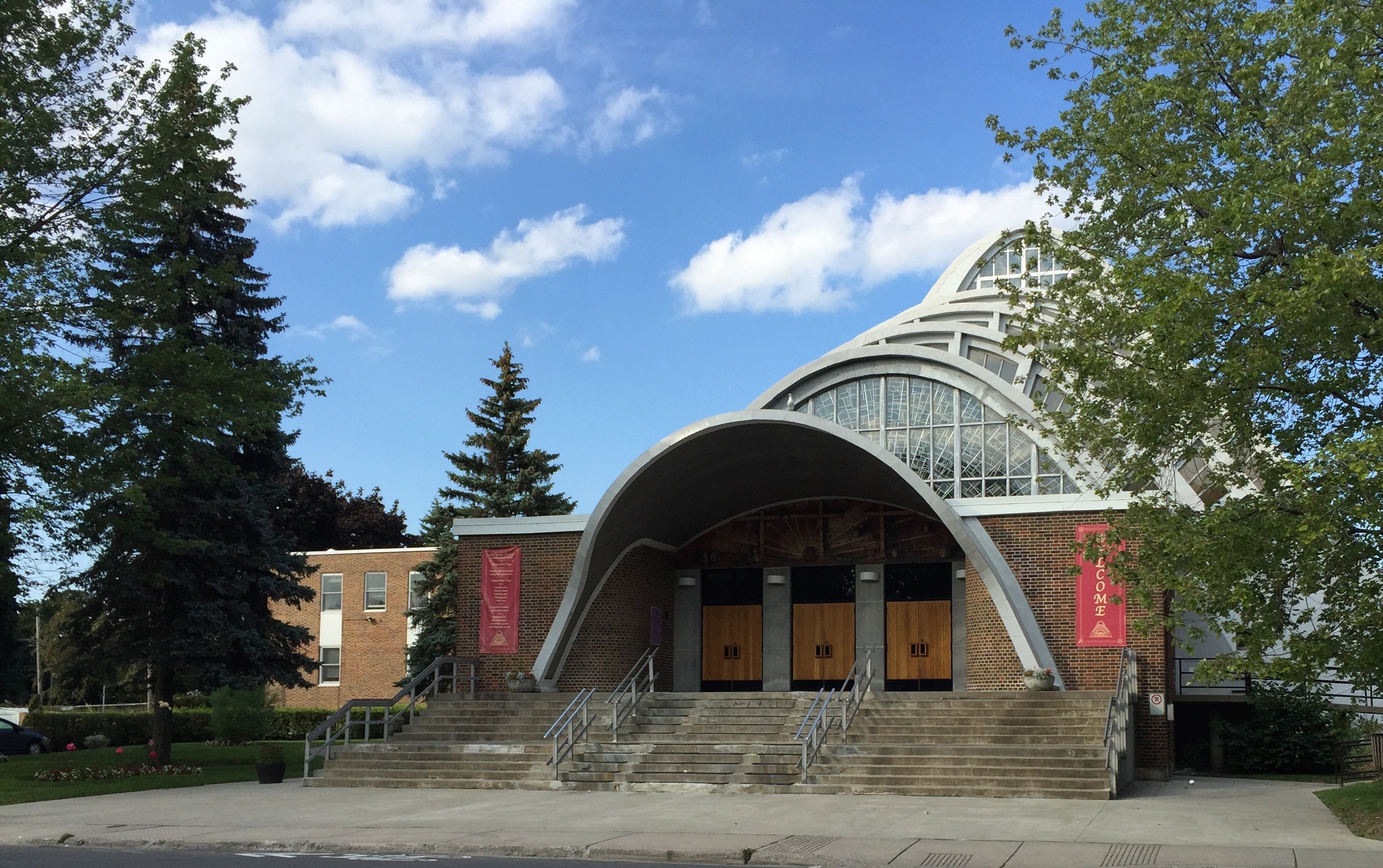 The exterior of St Ignatius of Loyola Roman Catholic Church in Montreal, Quebec.